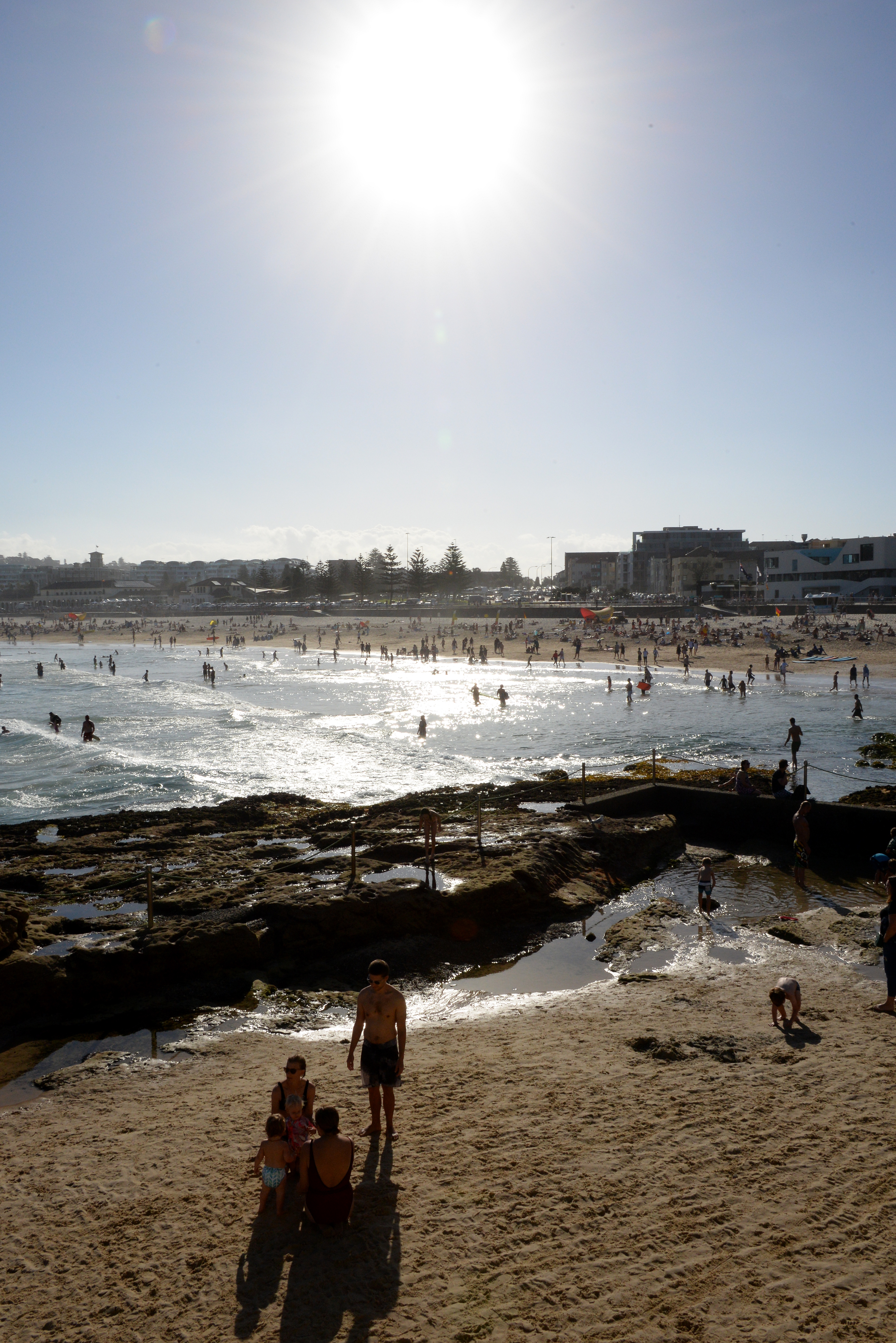 Bondi Beach, Sydney